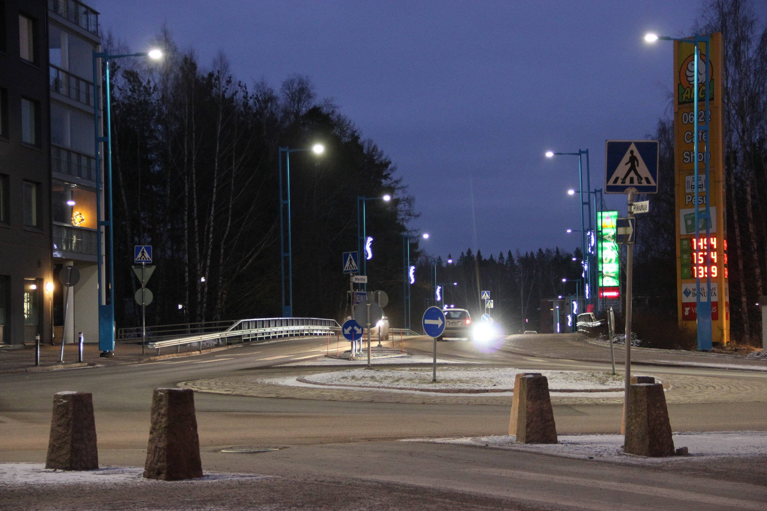 Roundabout in Nummela, Vihti, Finland